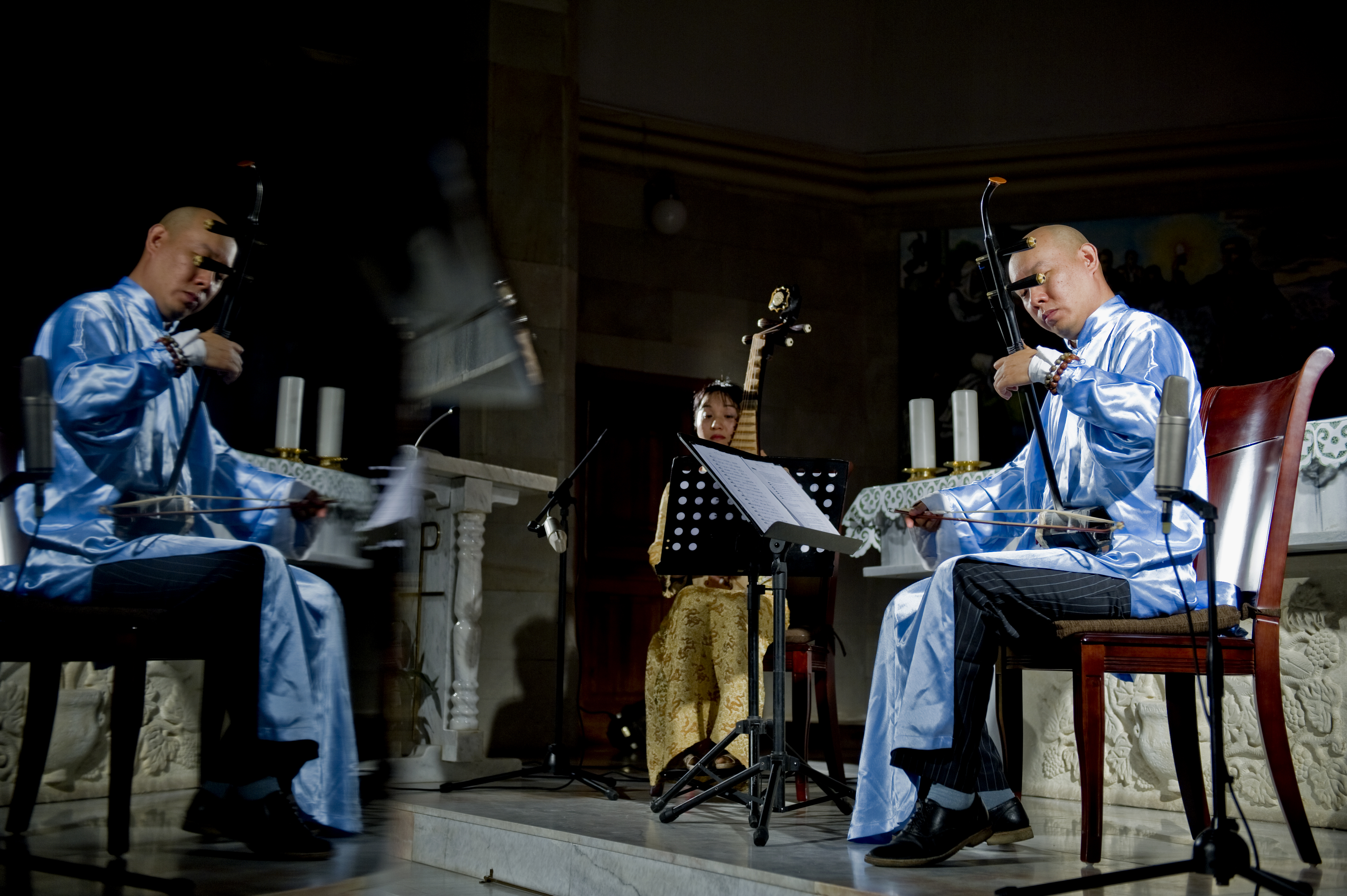 Festivali REmusica